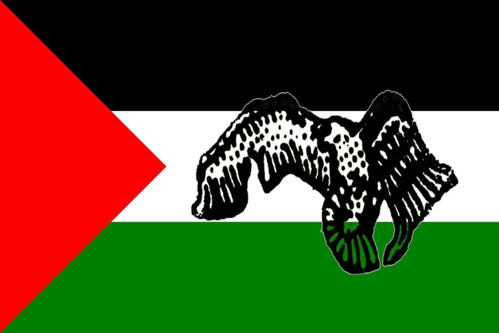 Simplified variant of the Ba'th Party flag with a baathist version of the Saladin Eagle as seen on a website of the Iraqi Baath Party and obviously used by Baathist Iraqi resistance